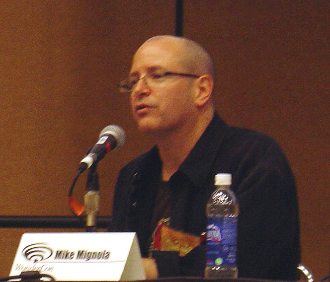 Mike Mignola, American comic book artist and writer. Taken at WonderCon 2006